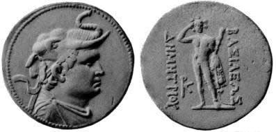 From 1889 edition of _Principal Coins of the Ancients_ Public Domain scans offered by ESnible from his site (July 10th agreement by e-mail). 00:04, 10 July 2004 PHG 442x191 (13449 bytes)